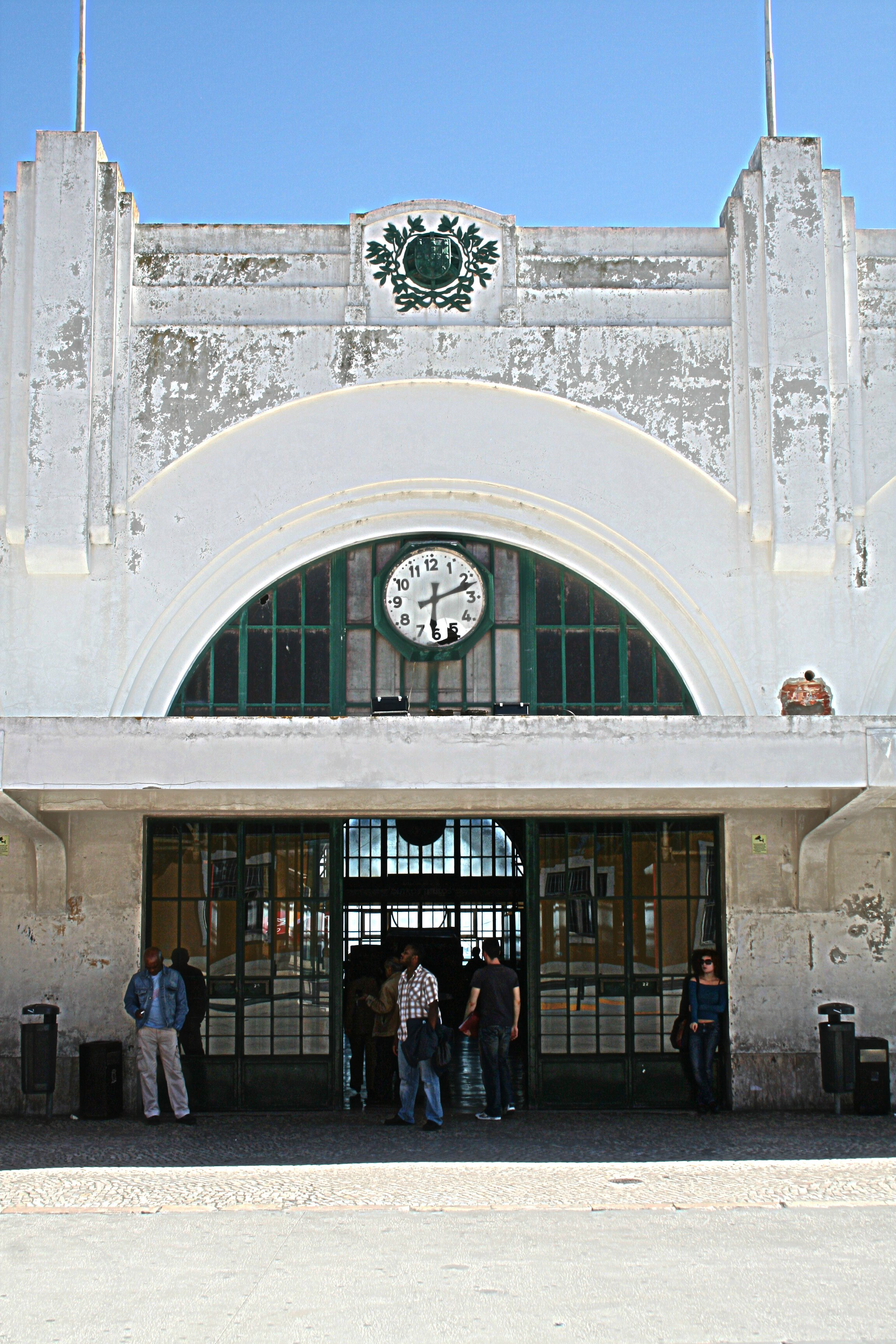 Lisbon South and Southeast boat terminal, Lisbon, Portugal